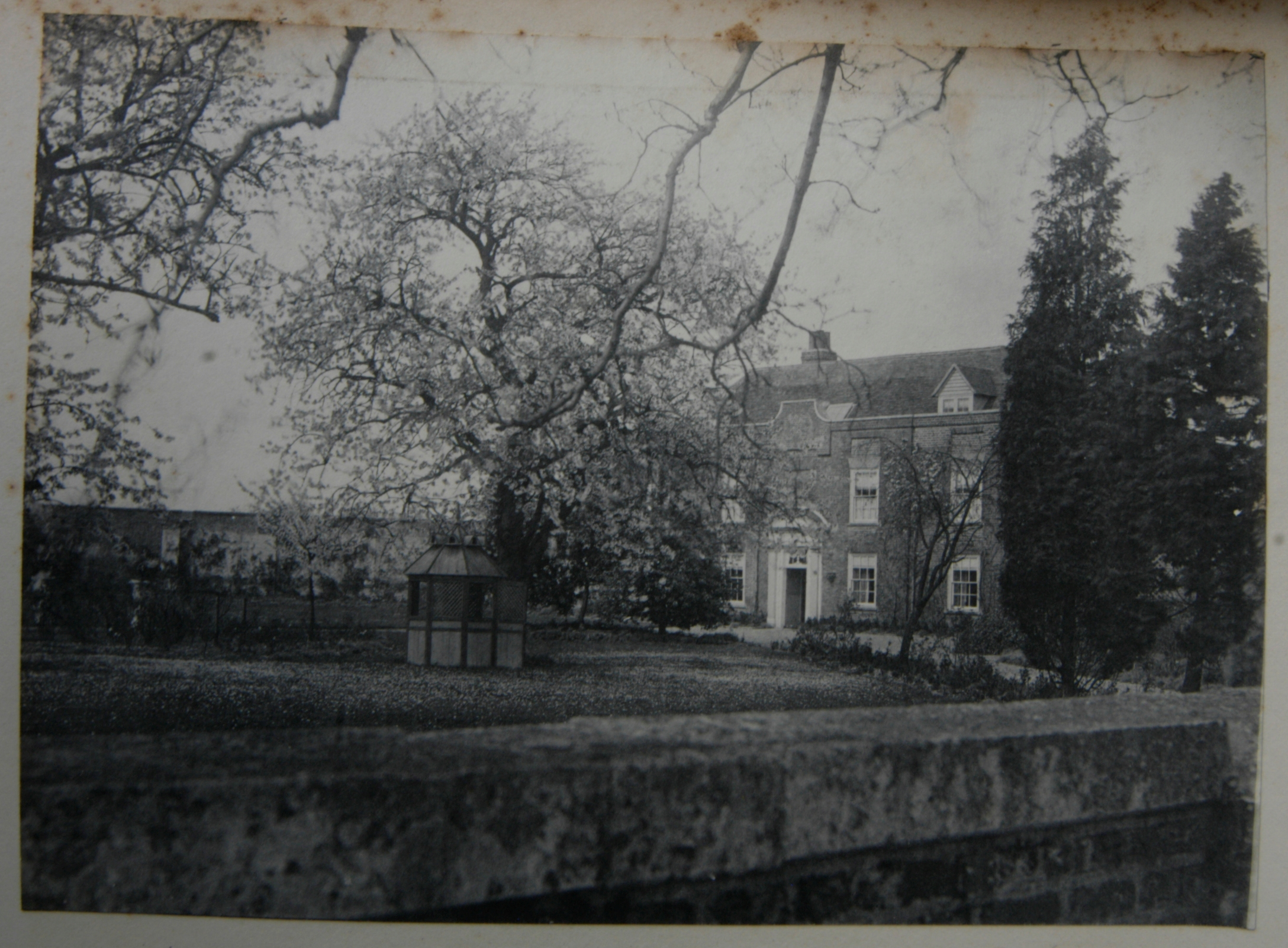 Photograph (by me, R. de Salis, Rodolph (talk) 12:20, 13 August 2015 (UTC)) of a photo Dawley House, Harlington, Middlesex, in the spring of 1902. Remains of Henry St John's Dawley mansion house complex, within the Dawley Wall, Harlington.